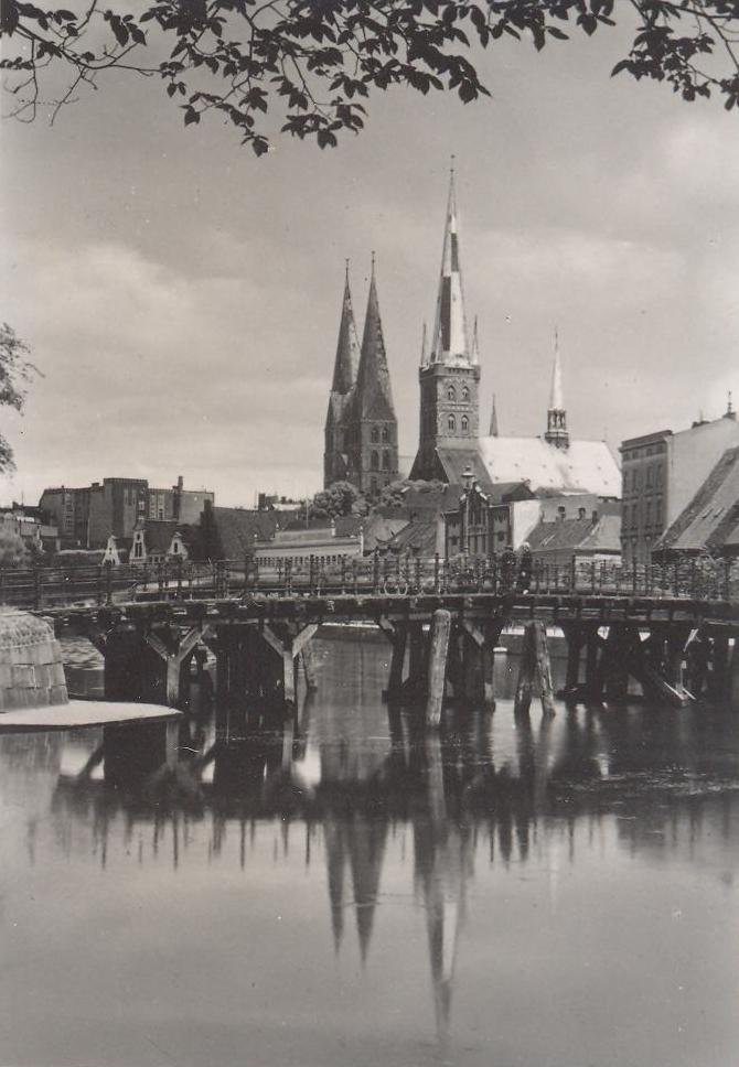 Saint Peter and Virgin Mary churches in Lübeck, Germany